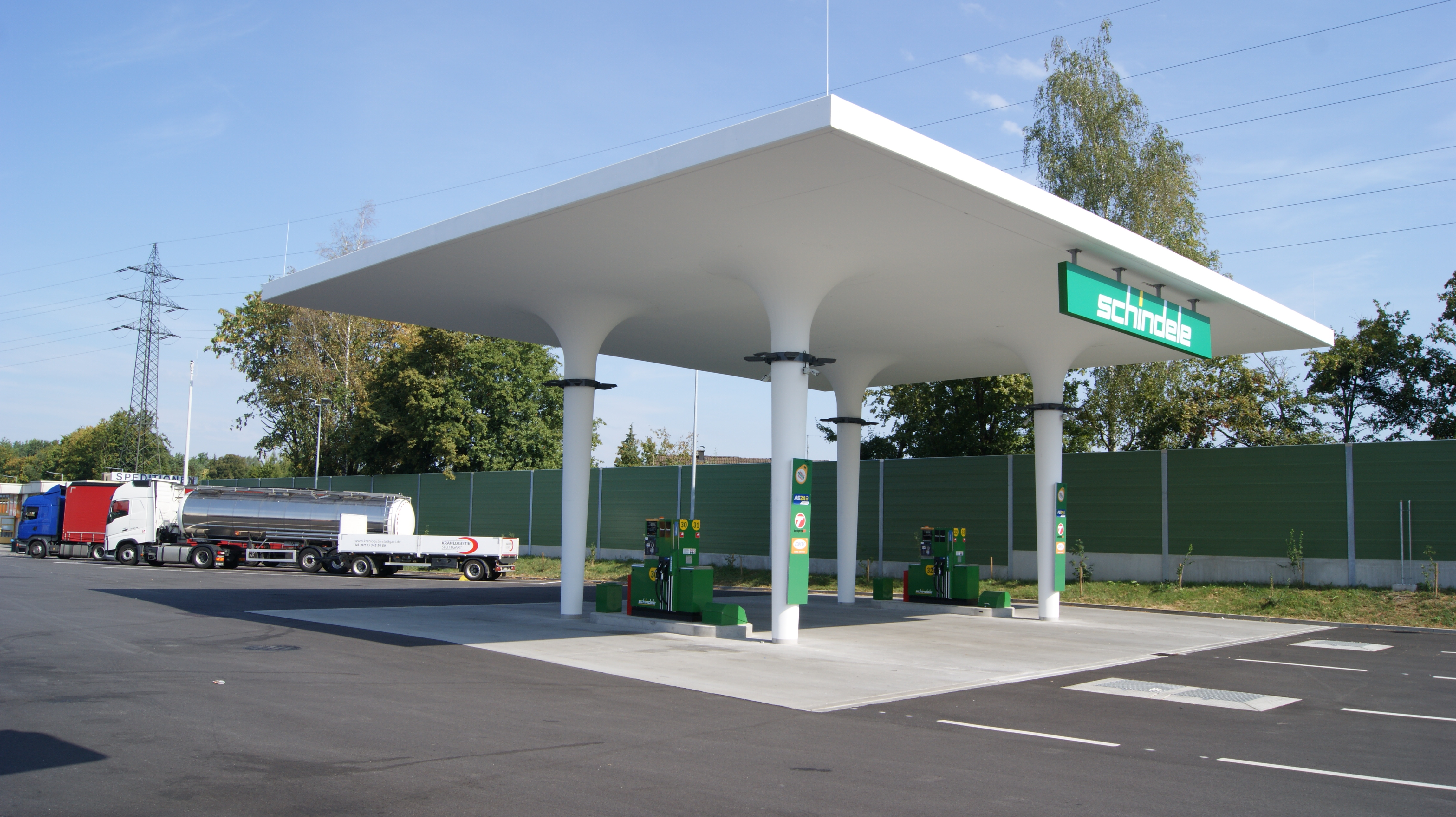 Rest area "Bodensee" ("Lake Constance") in the community Hörbranz in Vorarlberg, Austria. Truck gas station on the northeastern part.